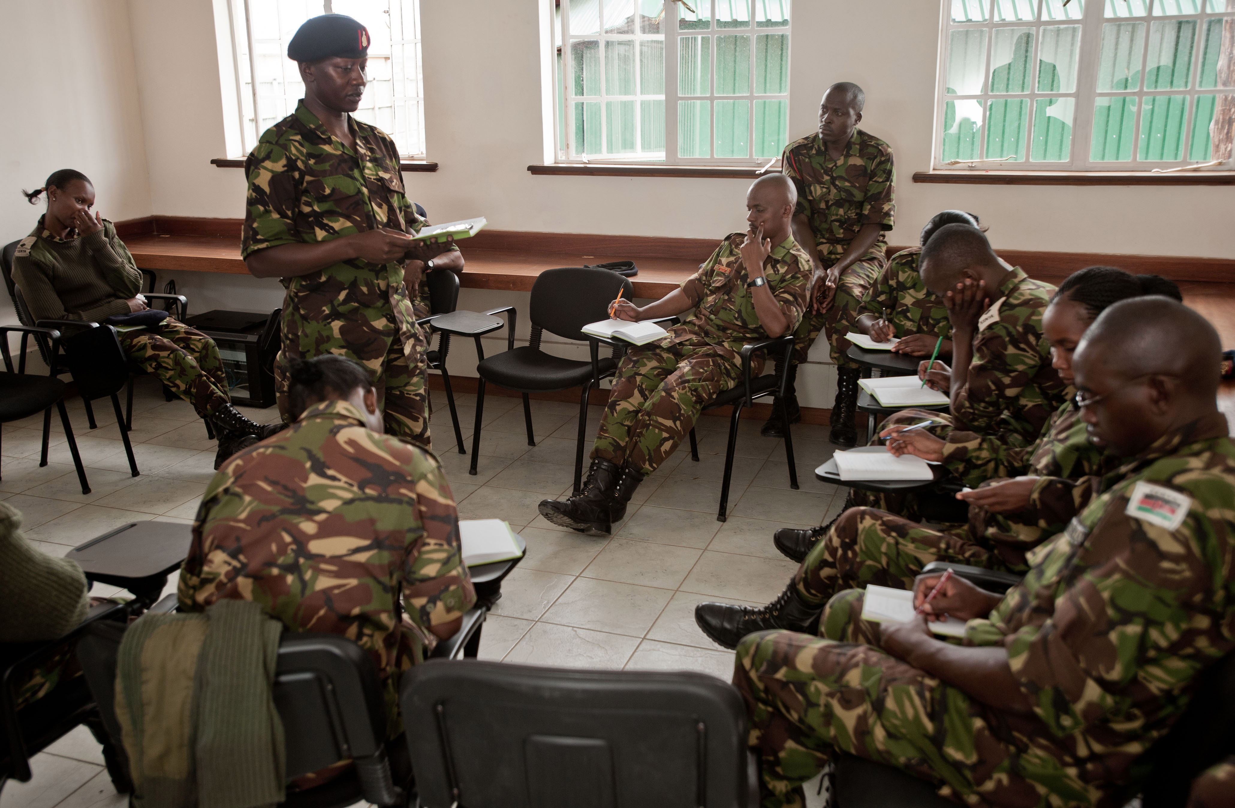 A Kenyan Army engineer gives a detailed after action report to senior officers from a structure assessment scenario during a civil affairs field training exercise in Embakasi, Kenya, October 18. This kind of exercise enhances the ability of civil affairs officers to identify critical projects that can benefit local citizens. U.S. Air Force photo by Staff Sgt. Marc I. Lane. To learn more about U.S. Army Africa visit our official website at Official Twitter Feed: Official Vimeo video channel: Join the U.S. Army Africa conversation on Facebook